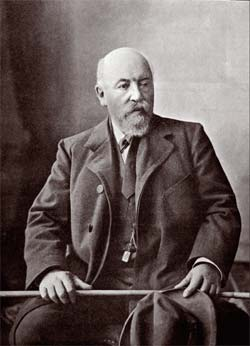 Nicholay Pastuhov (1831 - 1911) - Russian publisher, journalist, writer